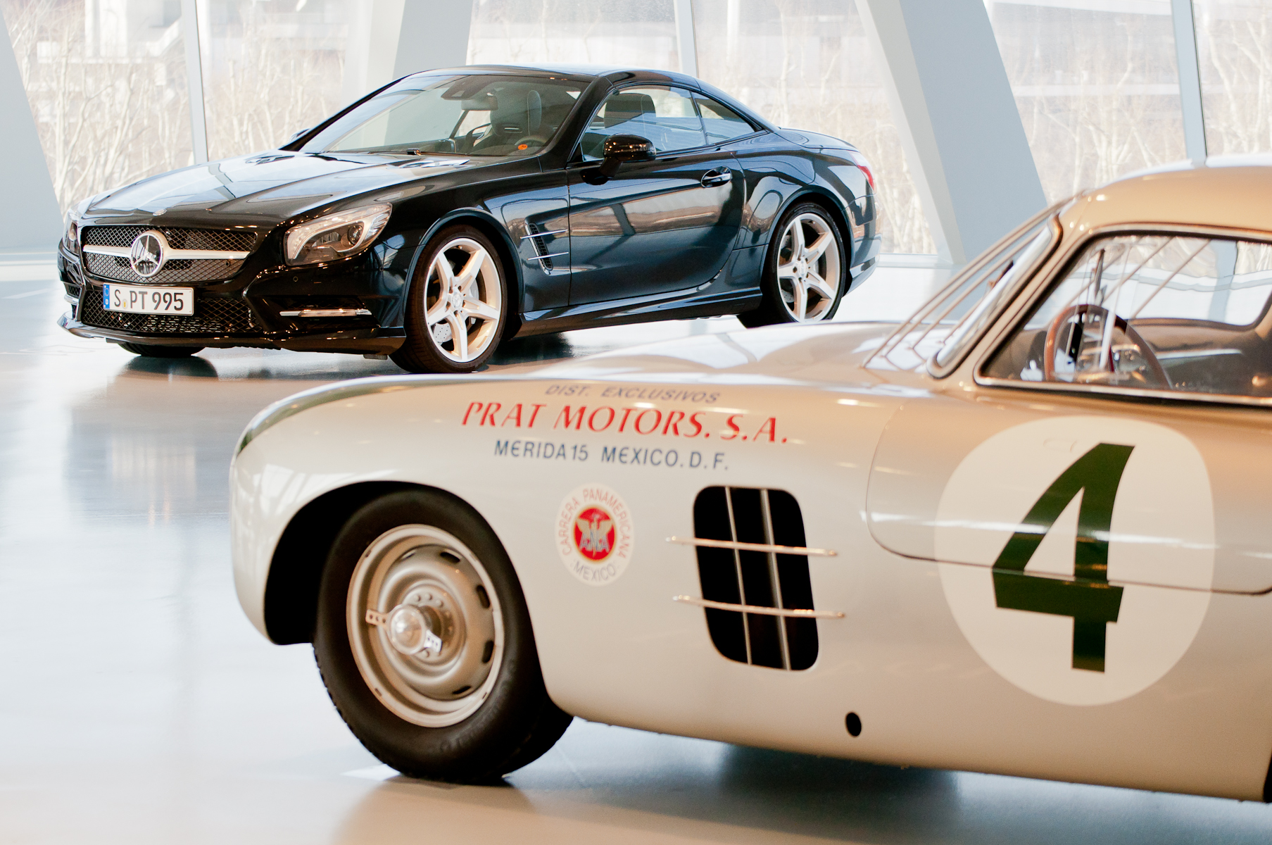 Mercedes-Benz R231 2012 SL at the Mercedes-Benz Museum in Stuttgart, Germany, at the special exhibition “Timeless – 60 years of the Mercedes-Benz SL”.